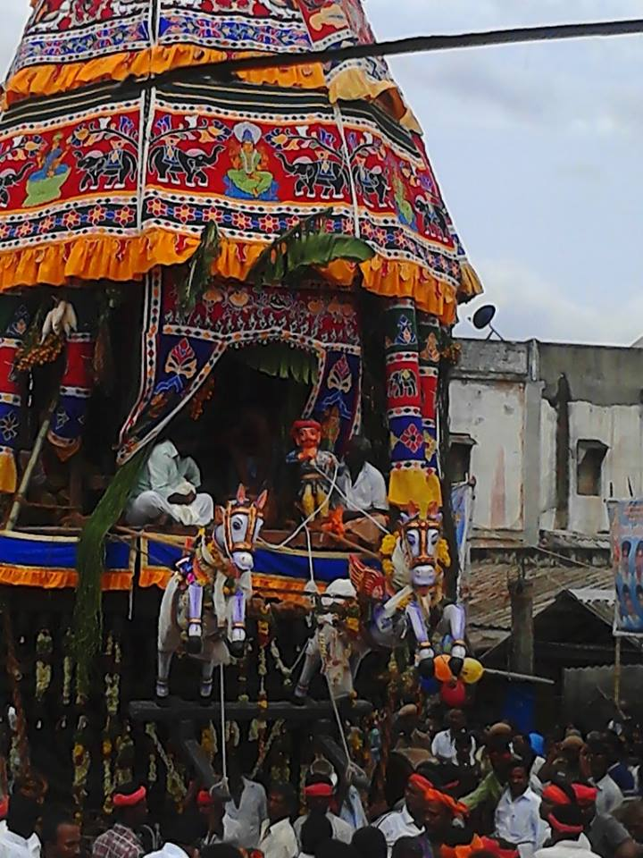 Theruu